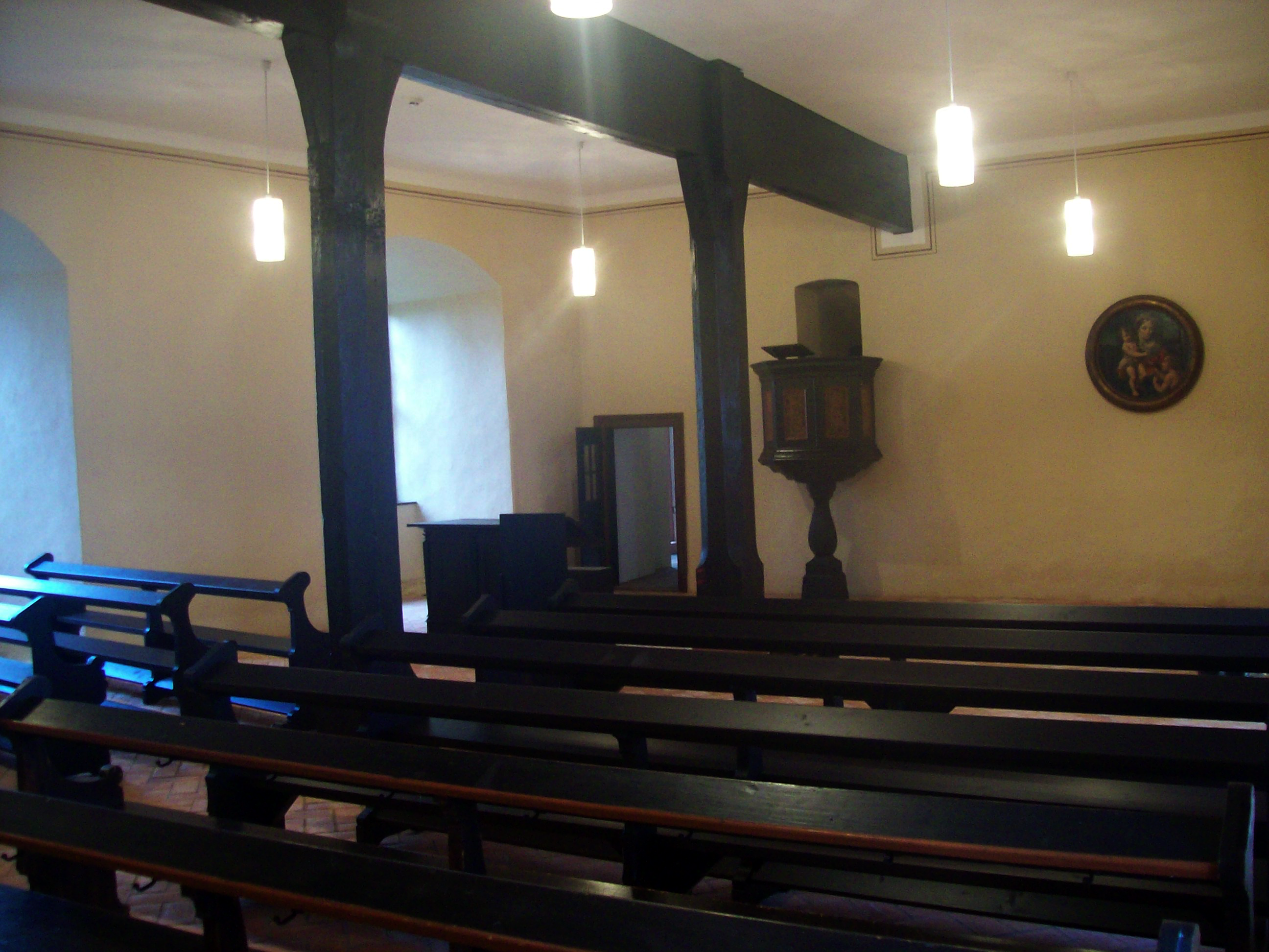 The original entrance to the pulpit of chapel auf Schloss Lichtenberg (Germany). The entrance was closed during the WW II and has been opened again in 2010.